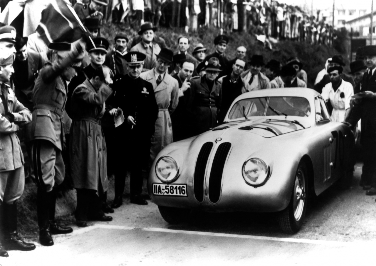 1940 Mille Miglia won on 28 Aprile 1940 in BMW 328 by von Huschke von Hanstein e Walter Bäumer